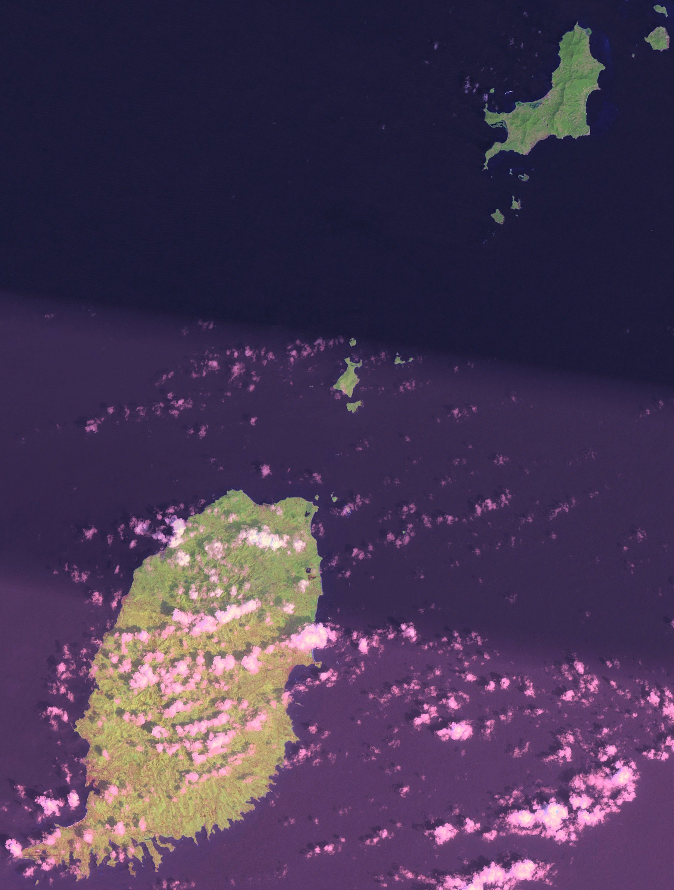 Satellite view of Grenada.